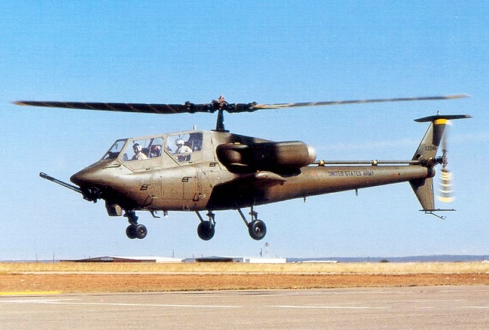 U.S. Army YAH-63 file:1652326591-5415